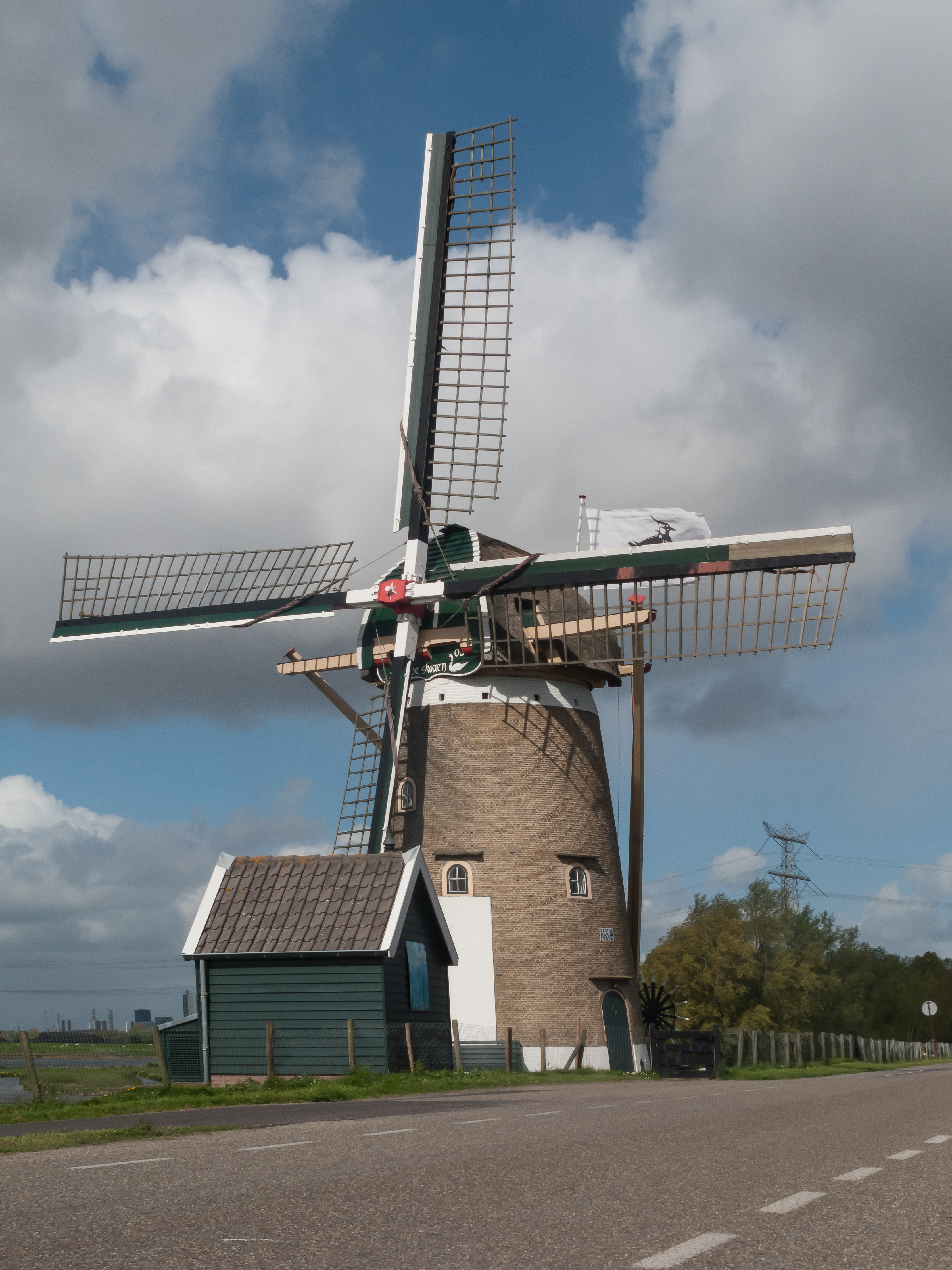 Nieuw Beijerland, windmill: windmolen de Swaan